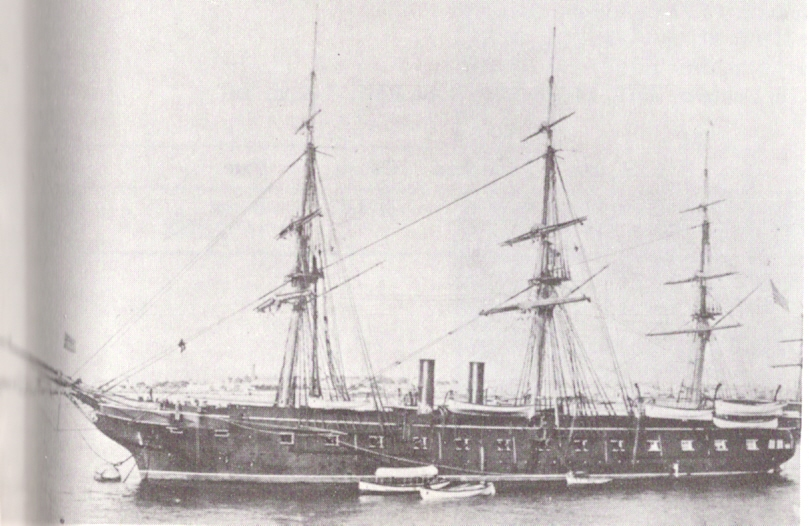 United States Navy corvette USS Pensacola at Alexandria, Virginia